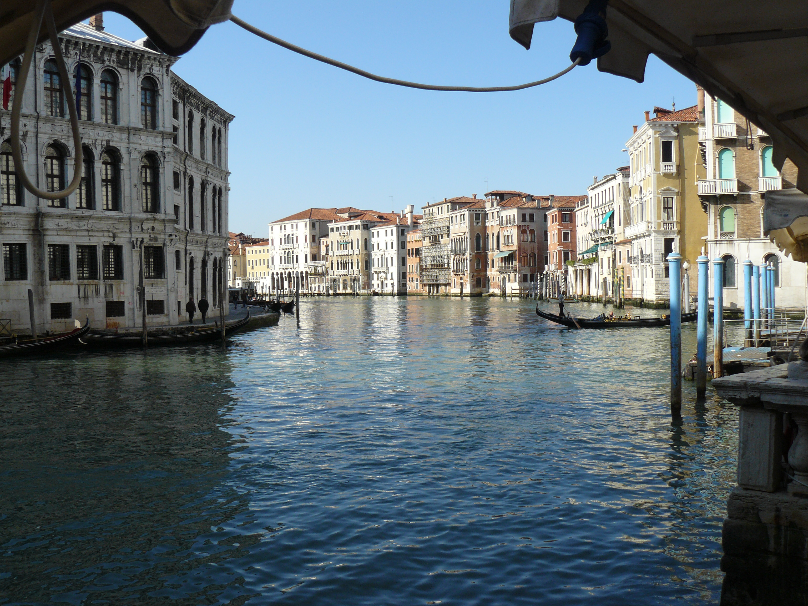 Gran Canal as seen from next to the Railto bridge, Venice